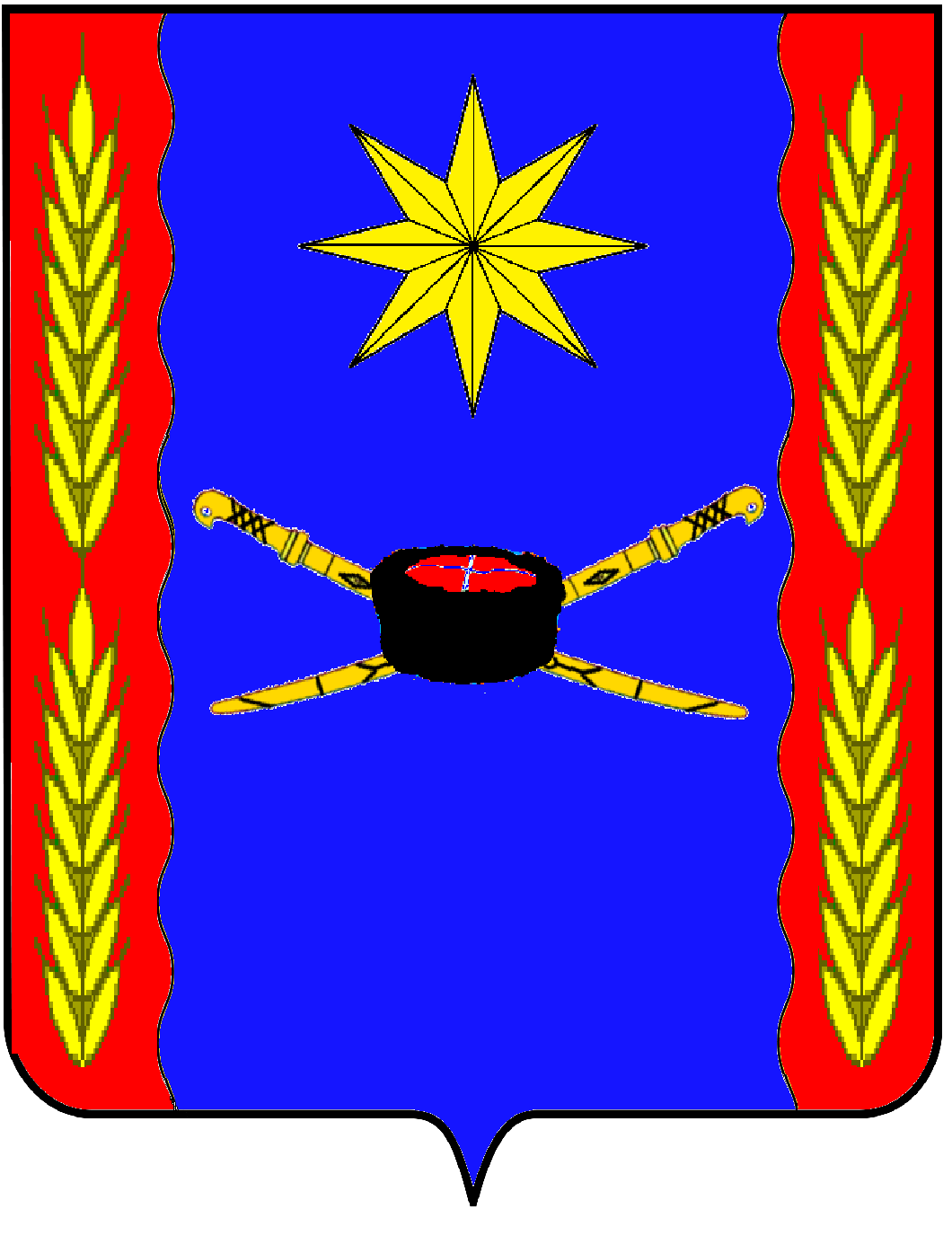 Coat of arms of Giaginskaya municipality